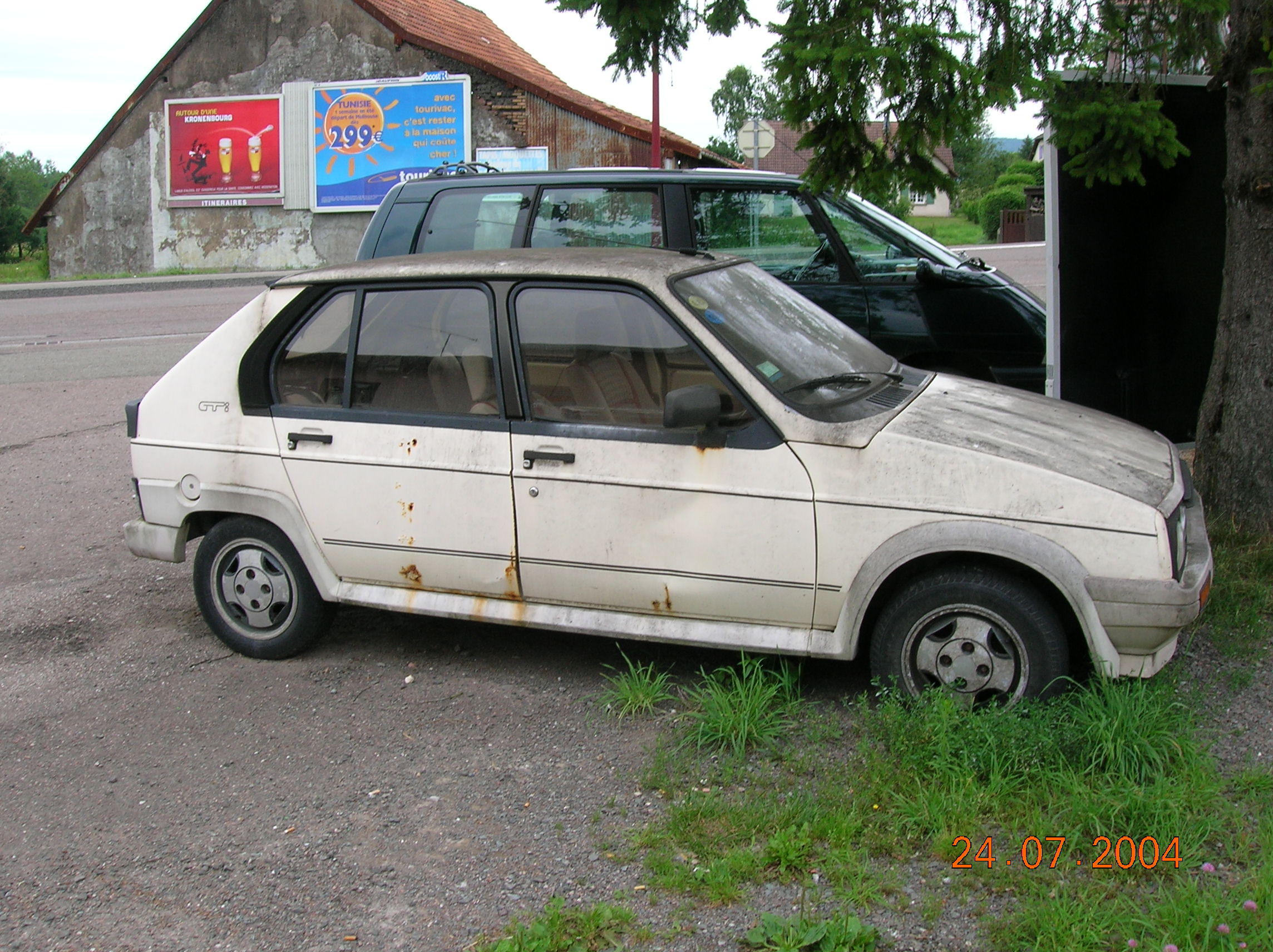 Photo of a Citroën Visa in France in 2005